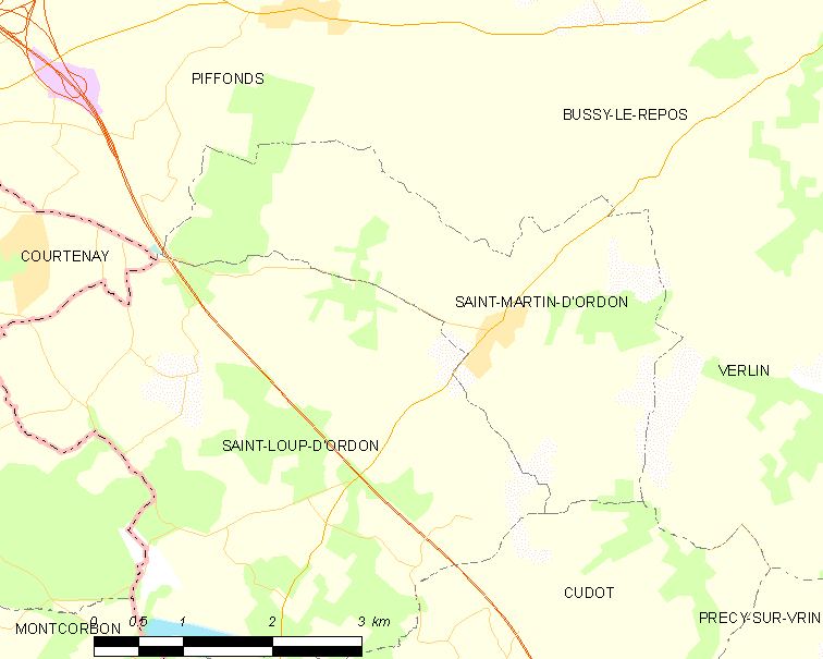 Map of French municipality Saint-Martin-d'Ordon